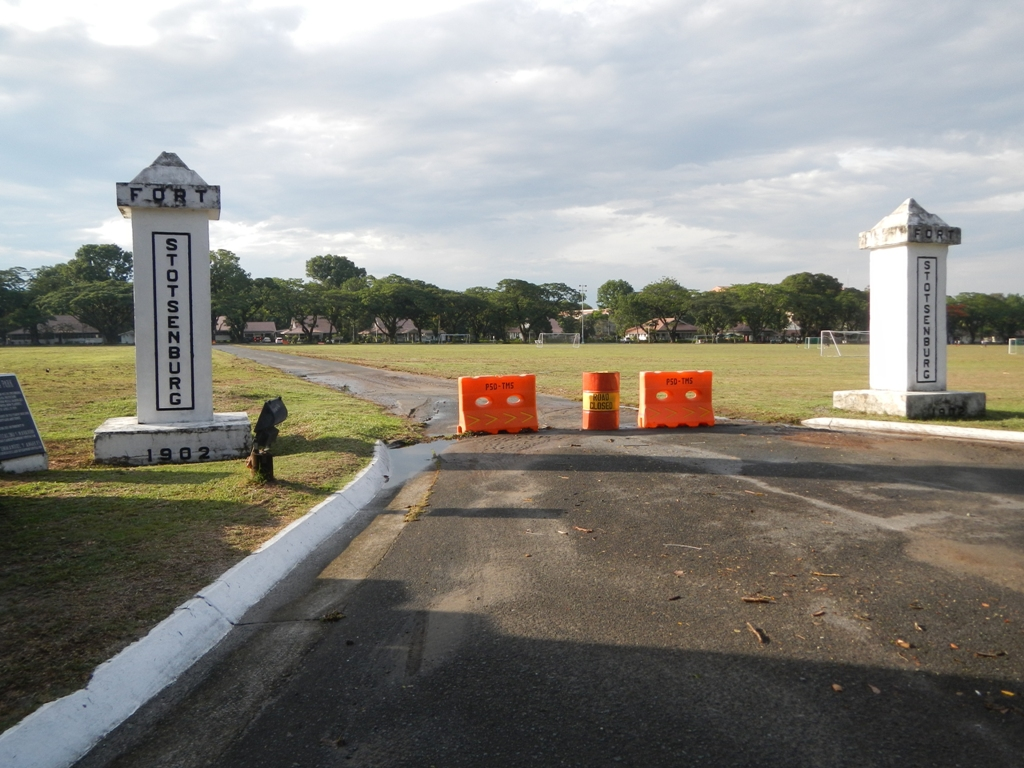 Fort Stotsenburg Park, Gateposts and Relics Clark Air Base and Freeport Zone, Angeles City, Pampanga Fort Stotsenburg is situated at Barangay Sapang Bato Angeles City, Pampanga also known as the "Parade Ground" of Clark Air Base named after Colonel John M. Stotsenburg; the Gateposts of Fort Stotsenburg, in Clark Air Base redeveloped into the Clark Freeport Zone